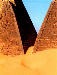 Pyramids in Marawe, near Shendi - Sudan.